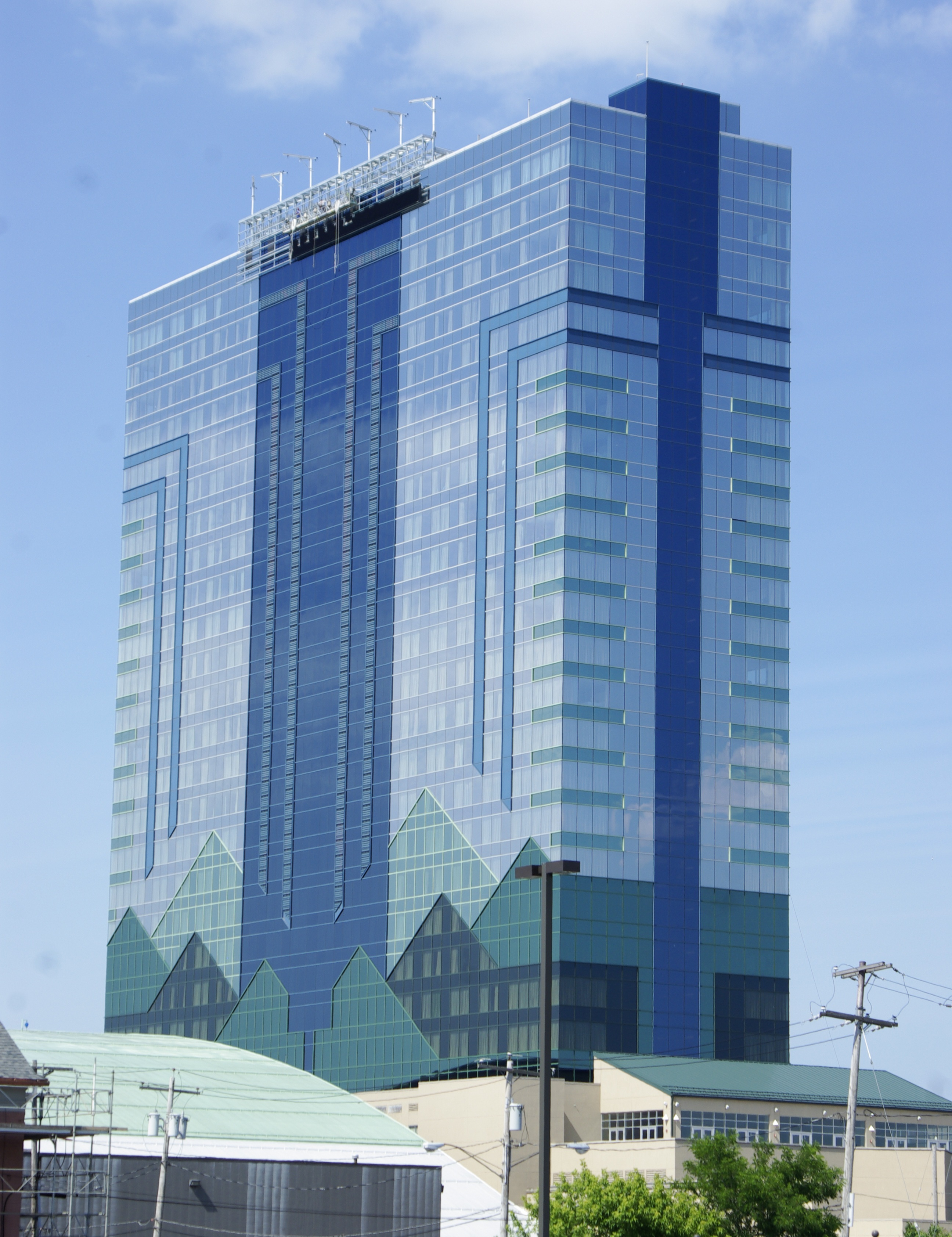 A photograph of the Seneca Niagara Hotel in Niagara Falls, New York.